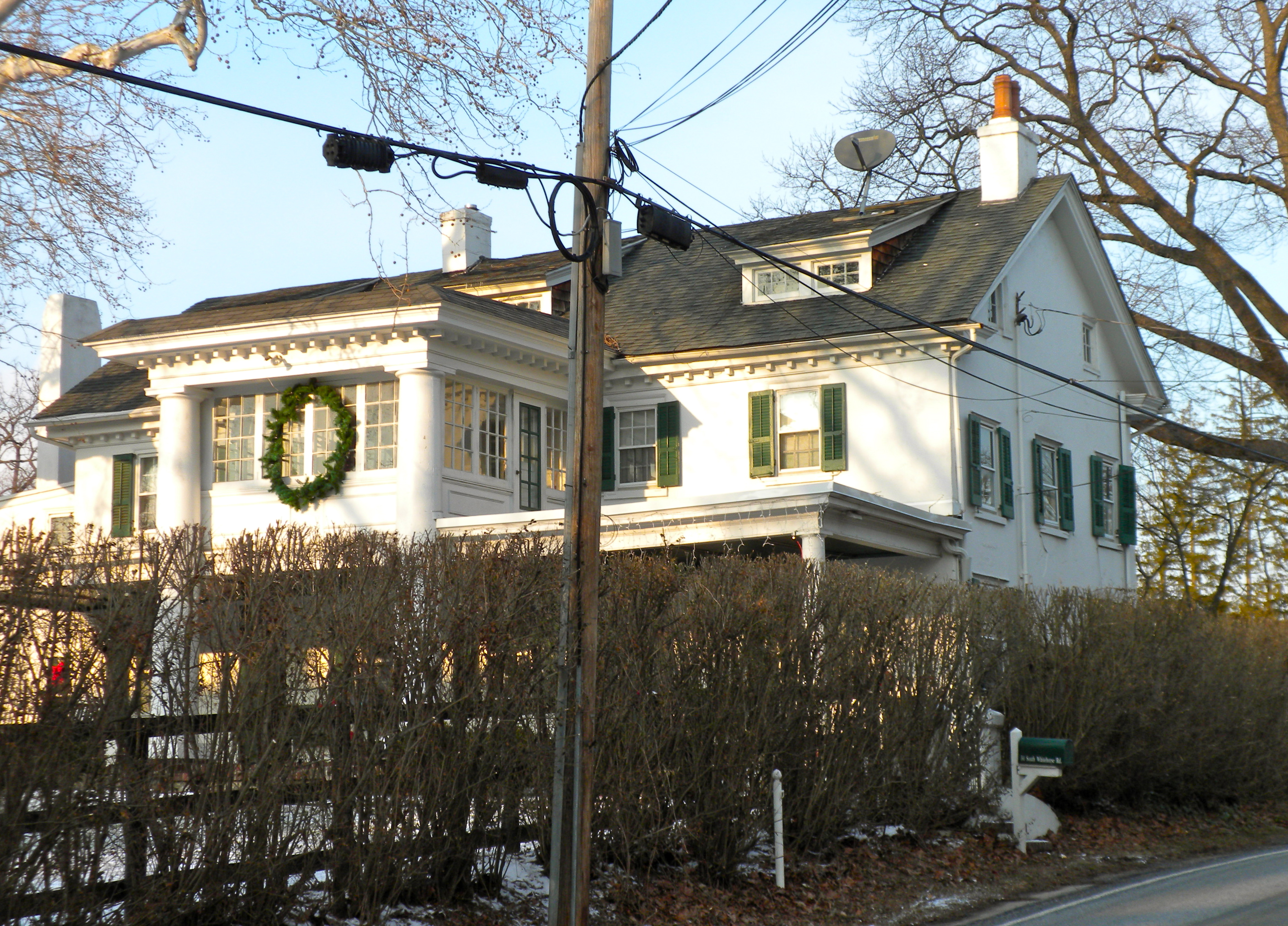 White Horse Farm on Whitehorse Road in Phoenixville, PA (Chester County). On NRHP. I donate this photo to the public domain.